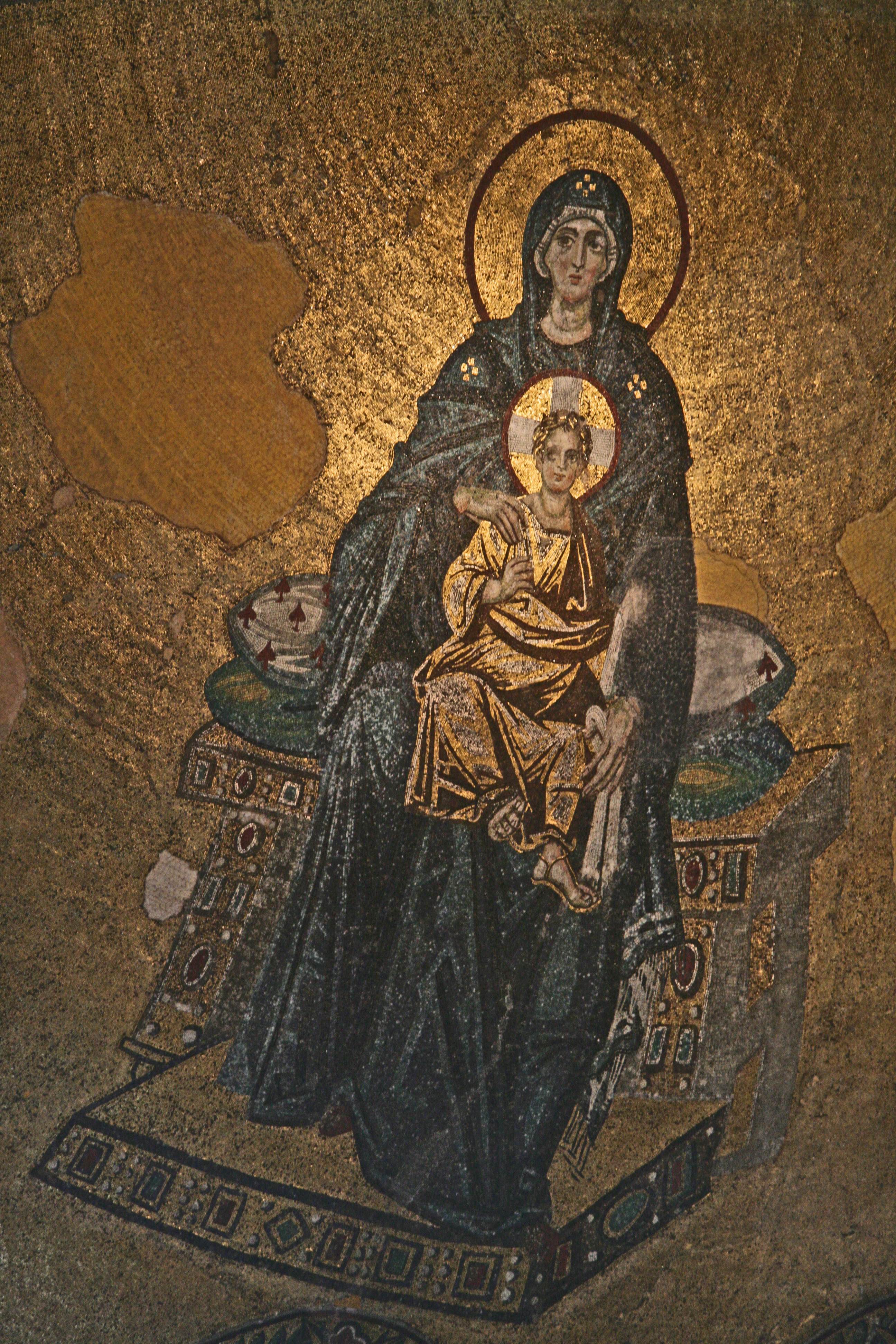 Mosaic of Virgin and Child inside the Hagia Sophia in Istanbul